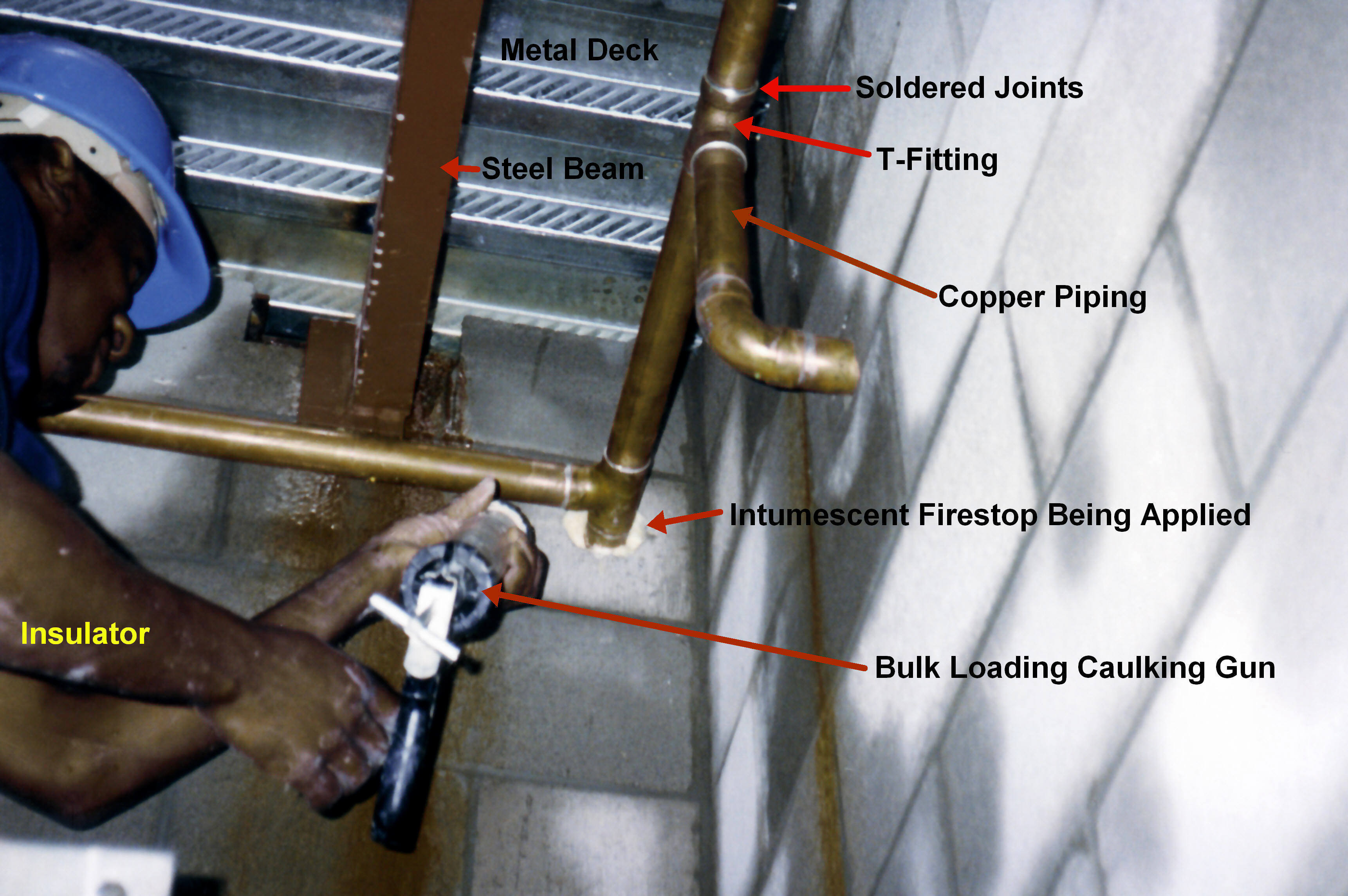 Copper piping system in a building with intumescent firestop being installed by an insulator, Vancouver, British Columbia, Canada.